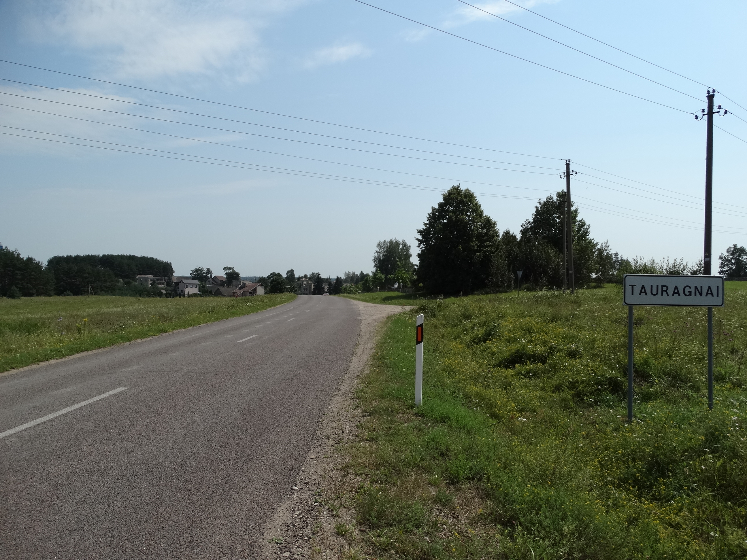 Tauragnai, Utena District, Lithuania